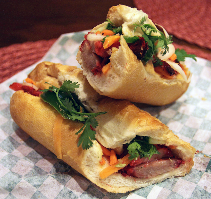 bánh mì thịt nướng ~ Vietnamese-style sandwich (Bahn mi) made with pork and assorted vegetables.